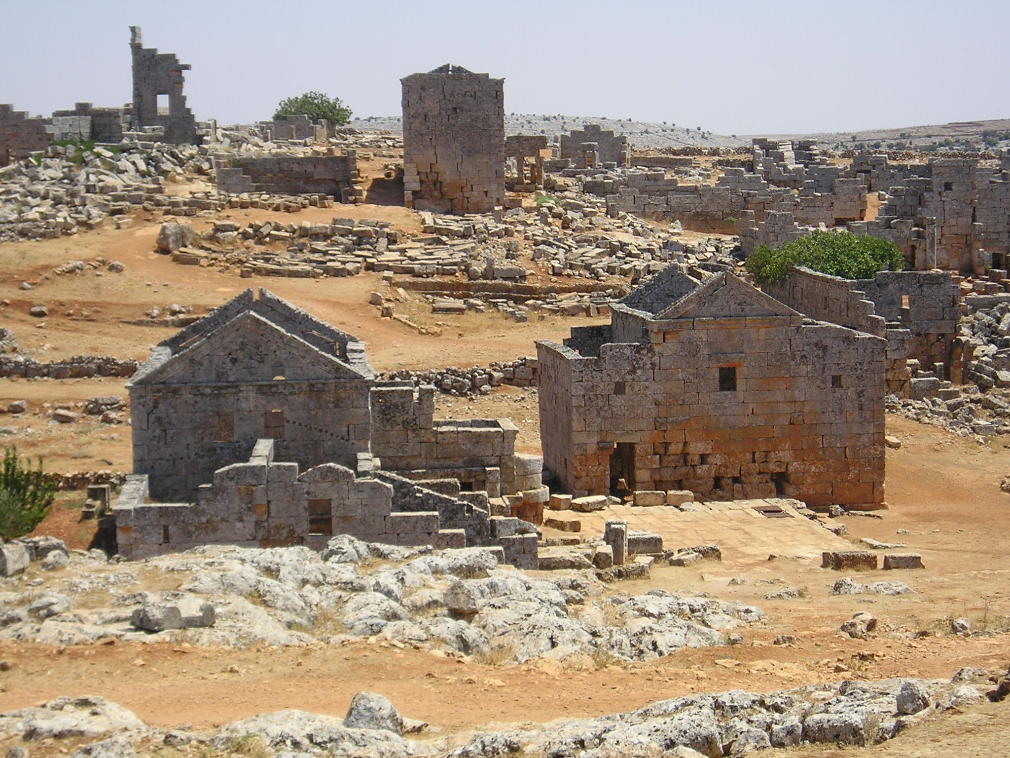 Serjilla, Syria - a view of ruins